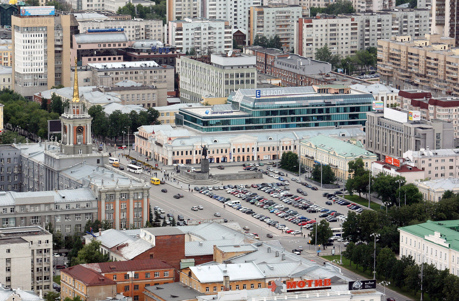 Ekaterinburg. Square of 1905 year